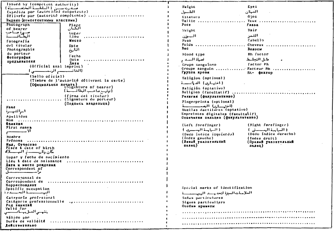 Identity card for journalists on dangerous professional missions (Inside the card)